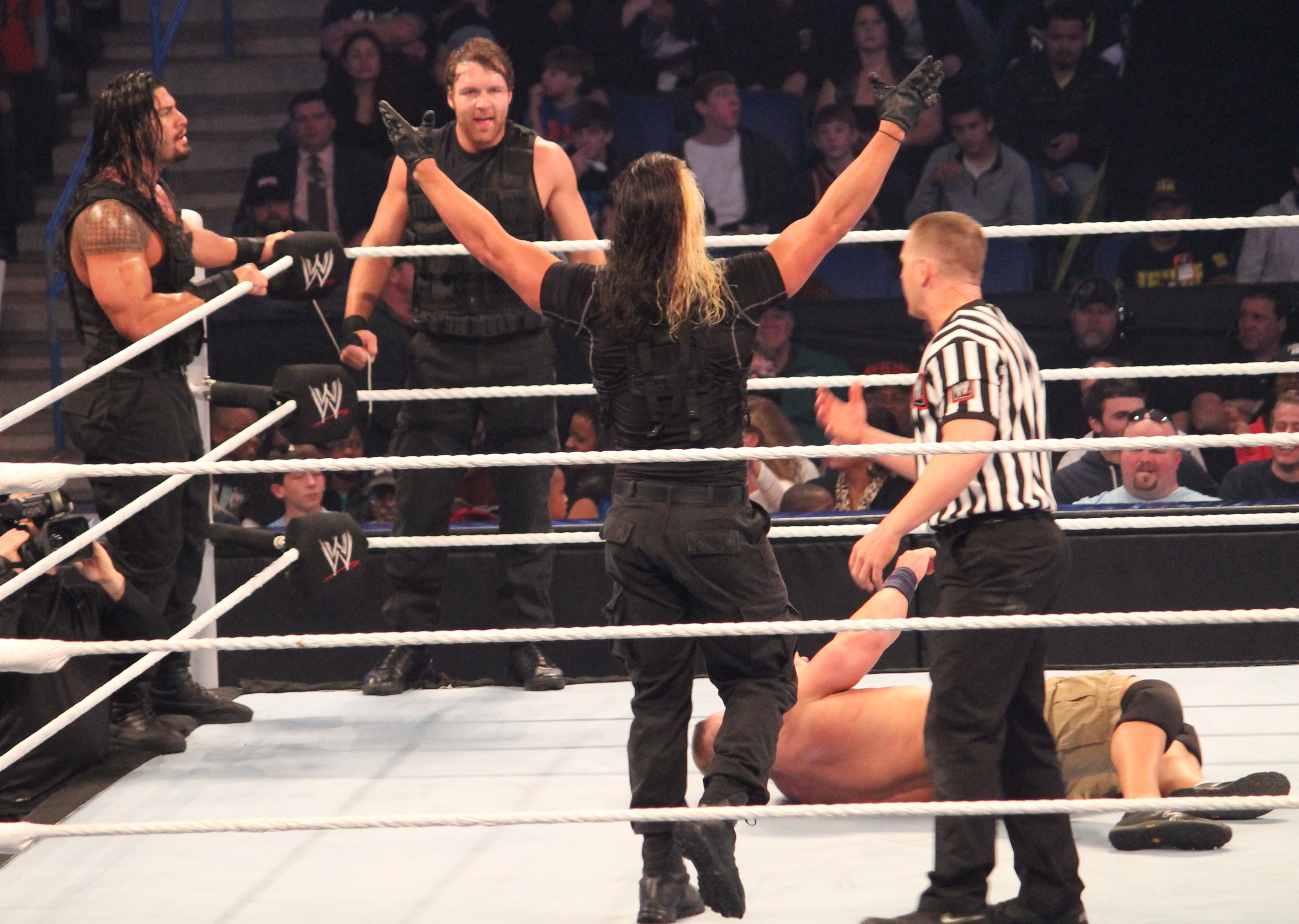 The Shield in control of a prone John Cena at the 2013 Elimination Chamber pay-per-view.